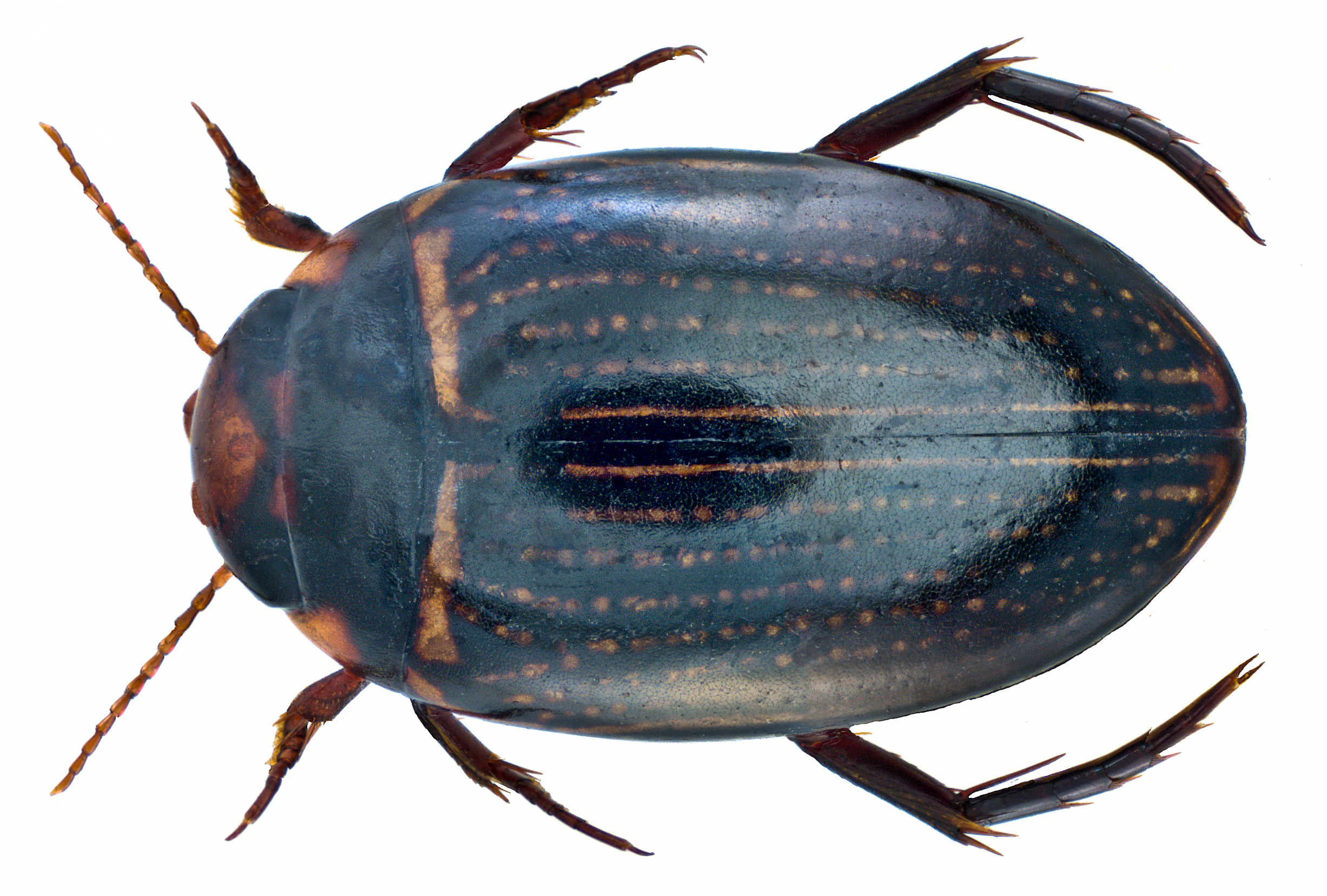 Family: Dytiscidae Size: 5,9 mm Location: Nepal, Annapurna Region, Tikhendhunga, 1500 m leg det. A.Skale, 20.IV.2000 Photo: U.Schmidt, 2014